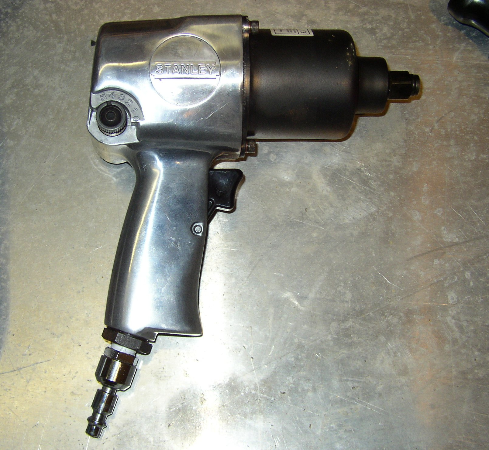 I took this photo myself, of my impact wrench, and release it under the GFDL.